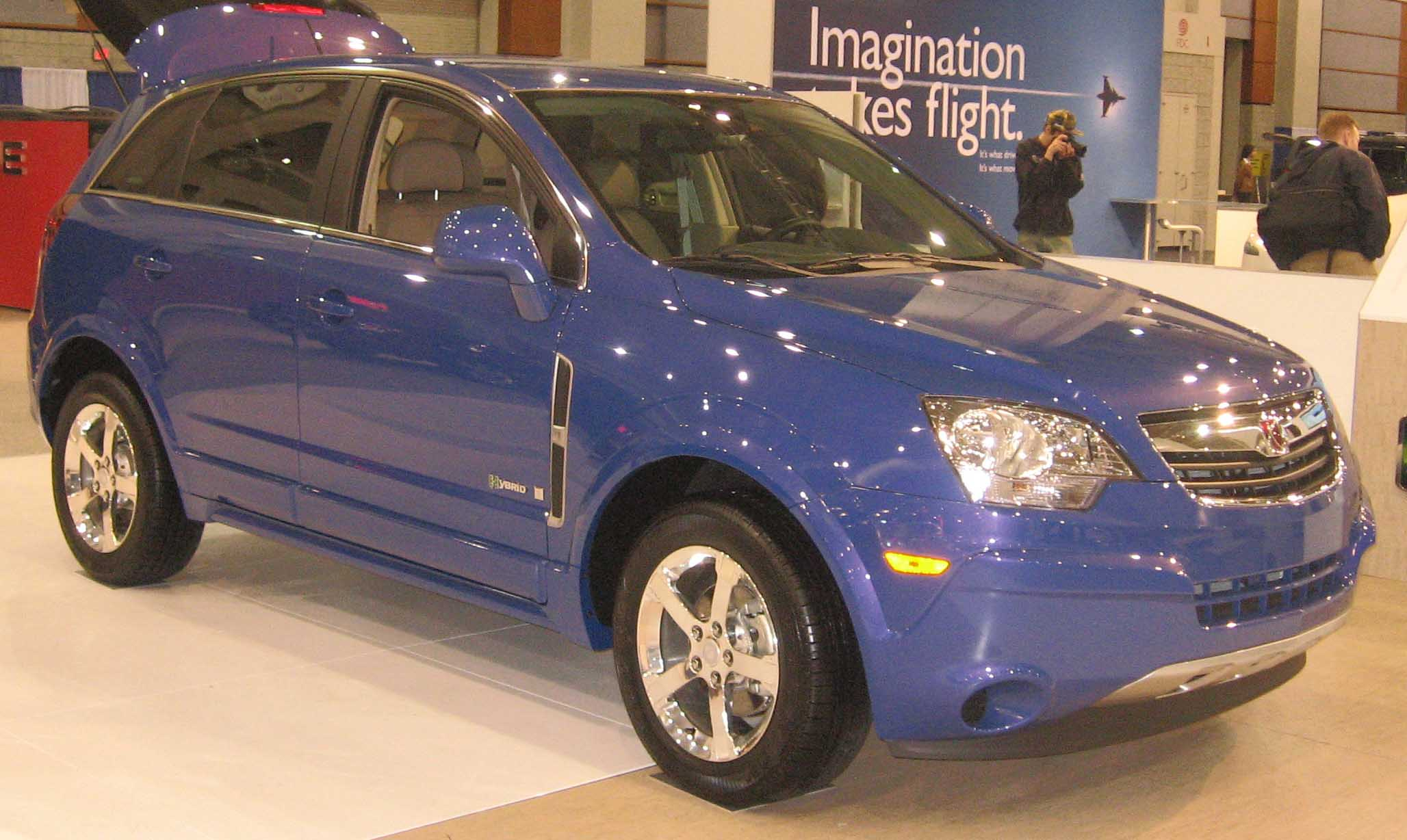 Saturn Vue photographed at the 2008 Washington DC Auto Show.